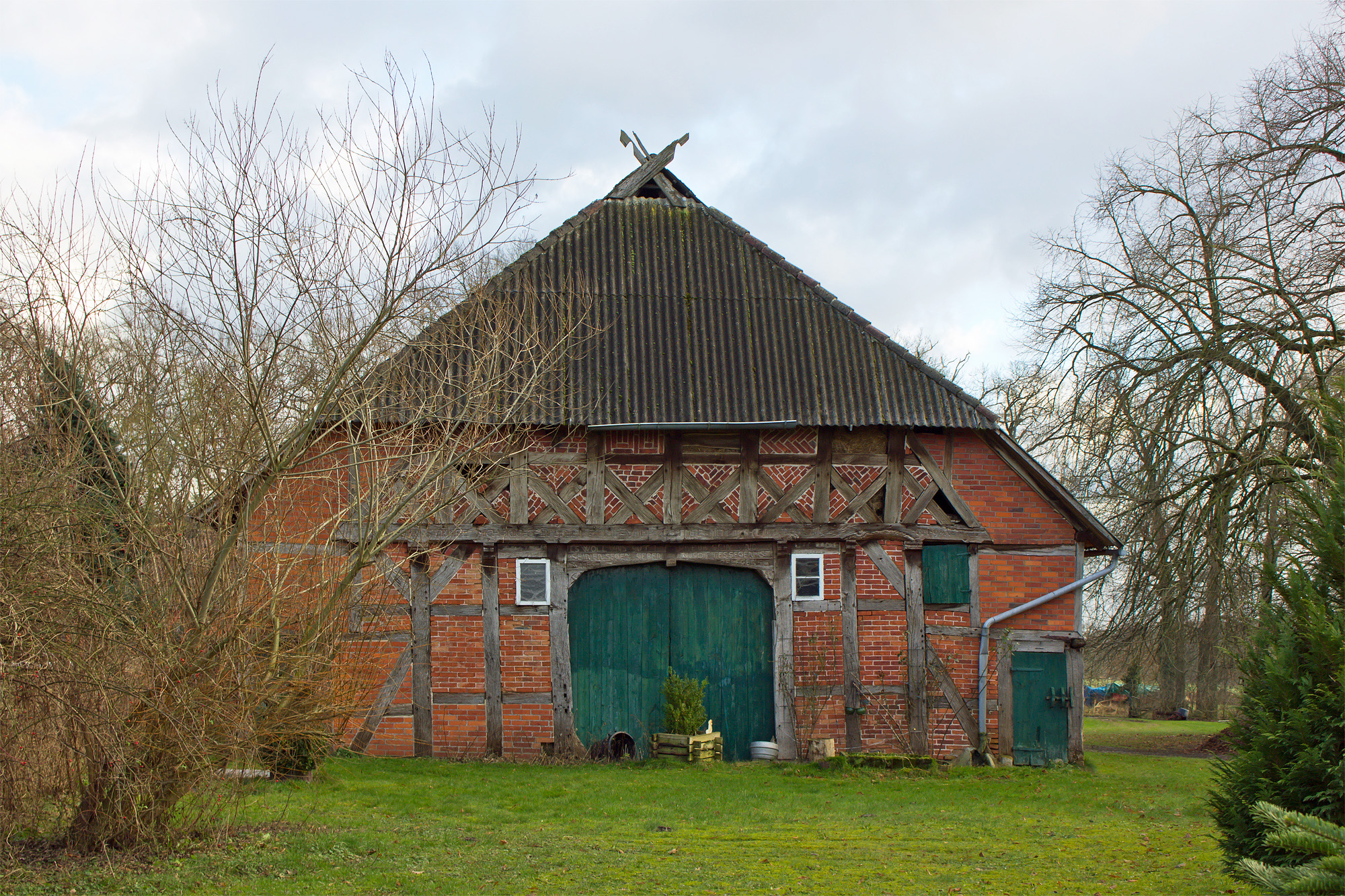 Cultural heritage monument "No 10" in the village "Klein Heide" near Dannenberg (Elbe); built 1701.